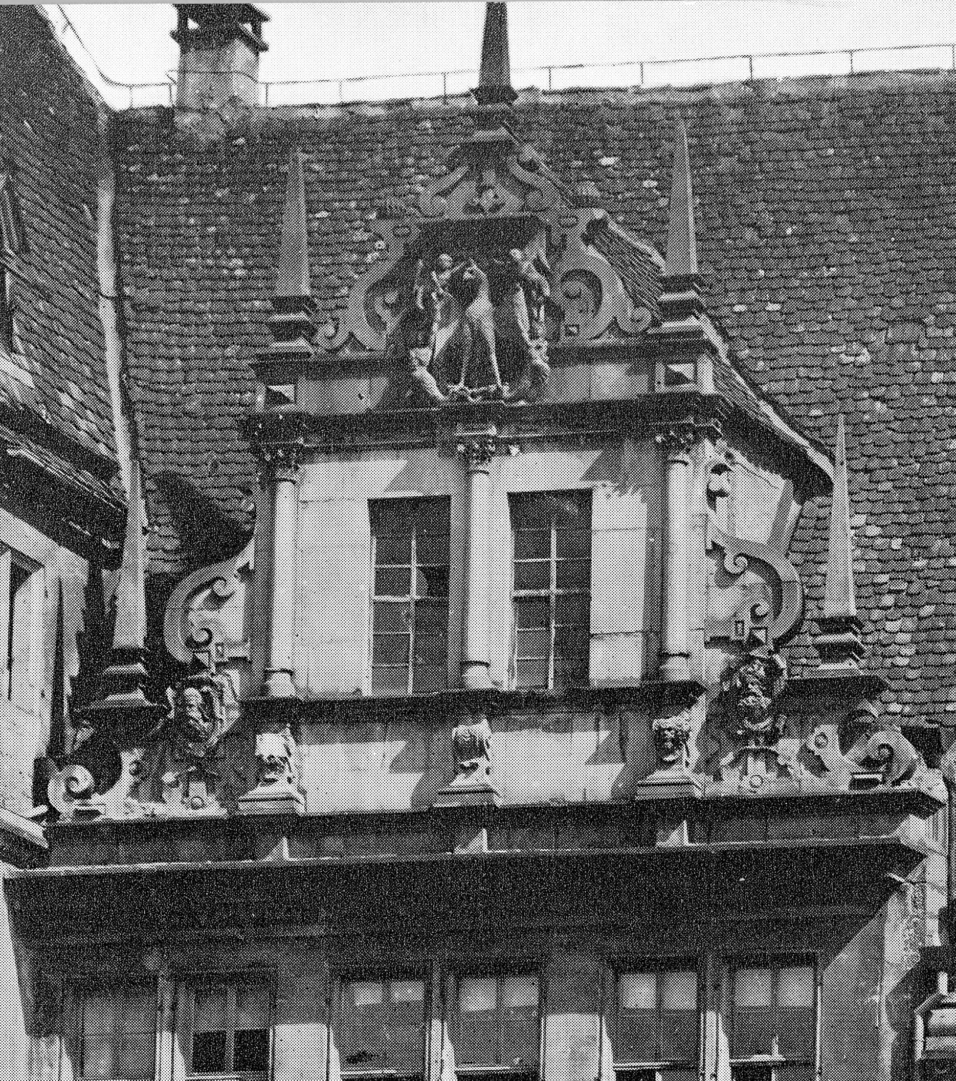 Heilbronn, Neue Kanzlei erbaut von Hans Kurz von 1593 bis 1596, Zwerchgiebel.JPG